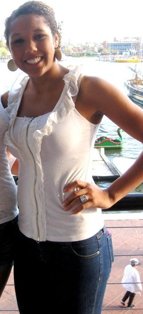 A woman wearing a formal tank top